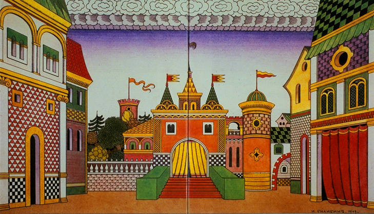 THE KINGDOM OF TSAR DADON. TOWN SQUARE. Stage-set design for Act Two of the opera "The Golden Cockerel" by Rimsky-Korsakov. 1909